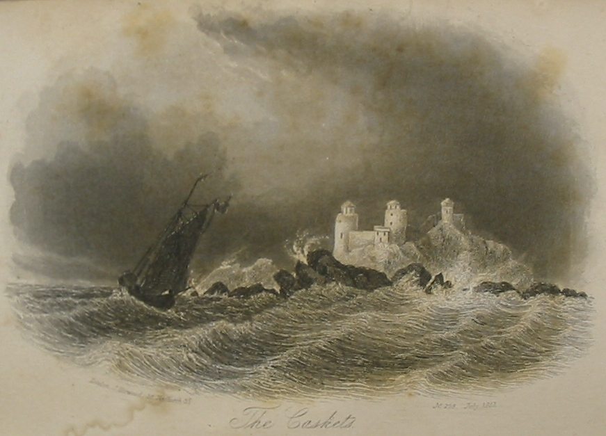 Illustration from The Channel Islands: Pictorial, Legendary and Descriptive (1857)